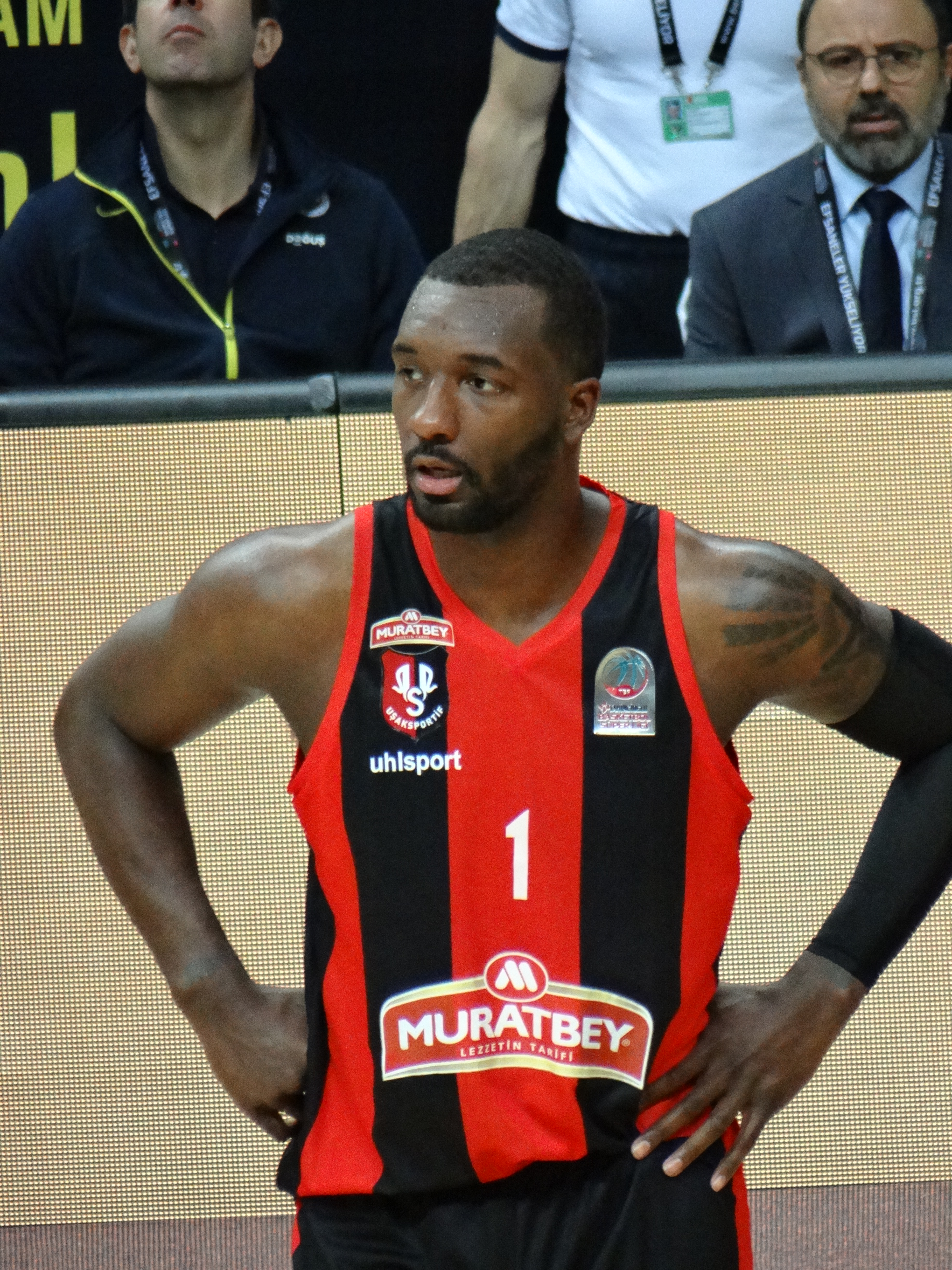 Jordan Hamilton 1 Uşak Sportif 20171224